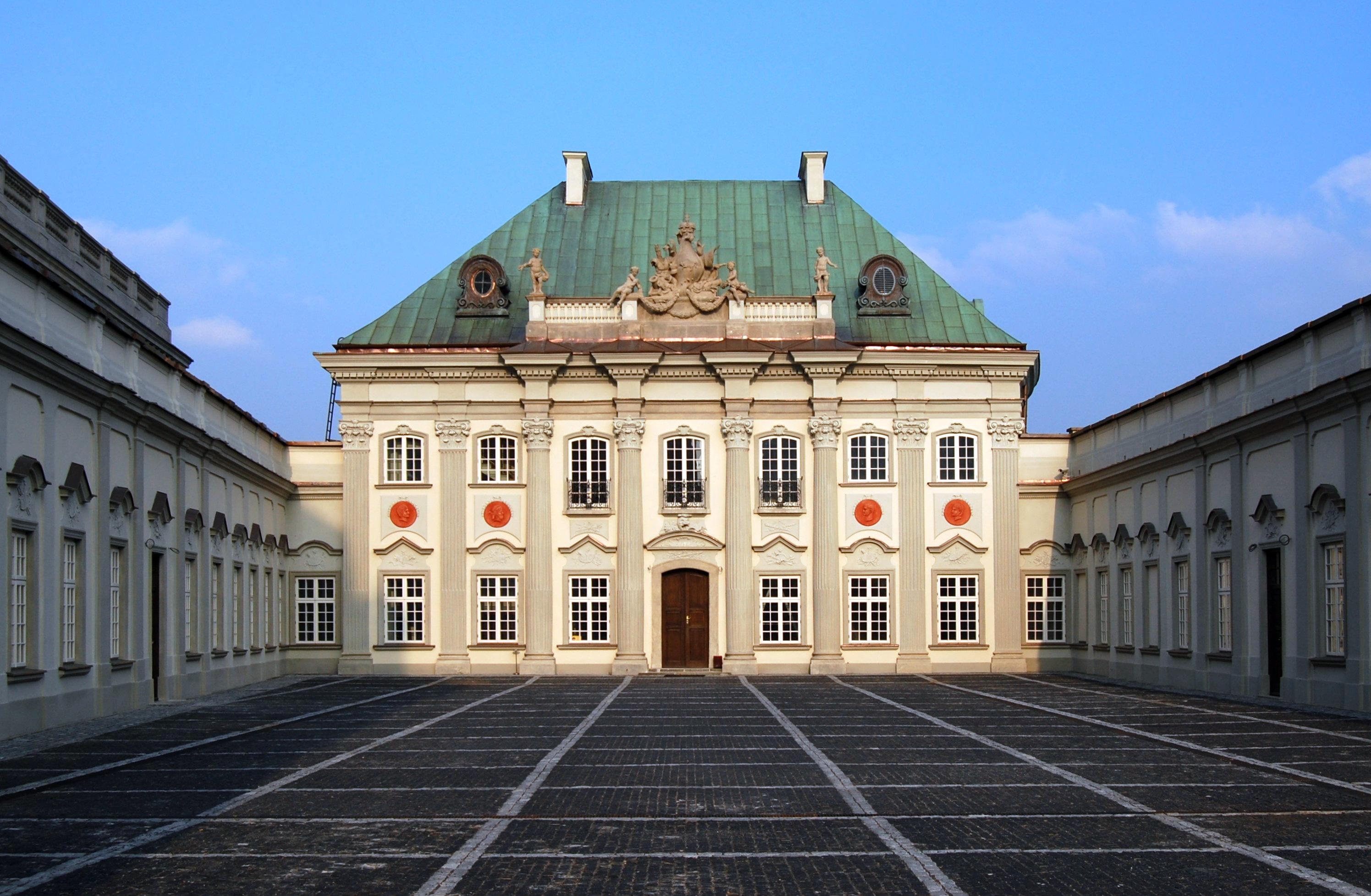 Pałac pod Blachą, Copper-Roof Palace, Warsaw, Poland.